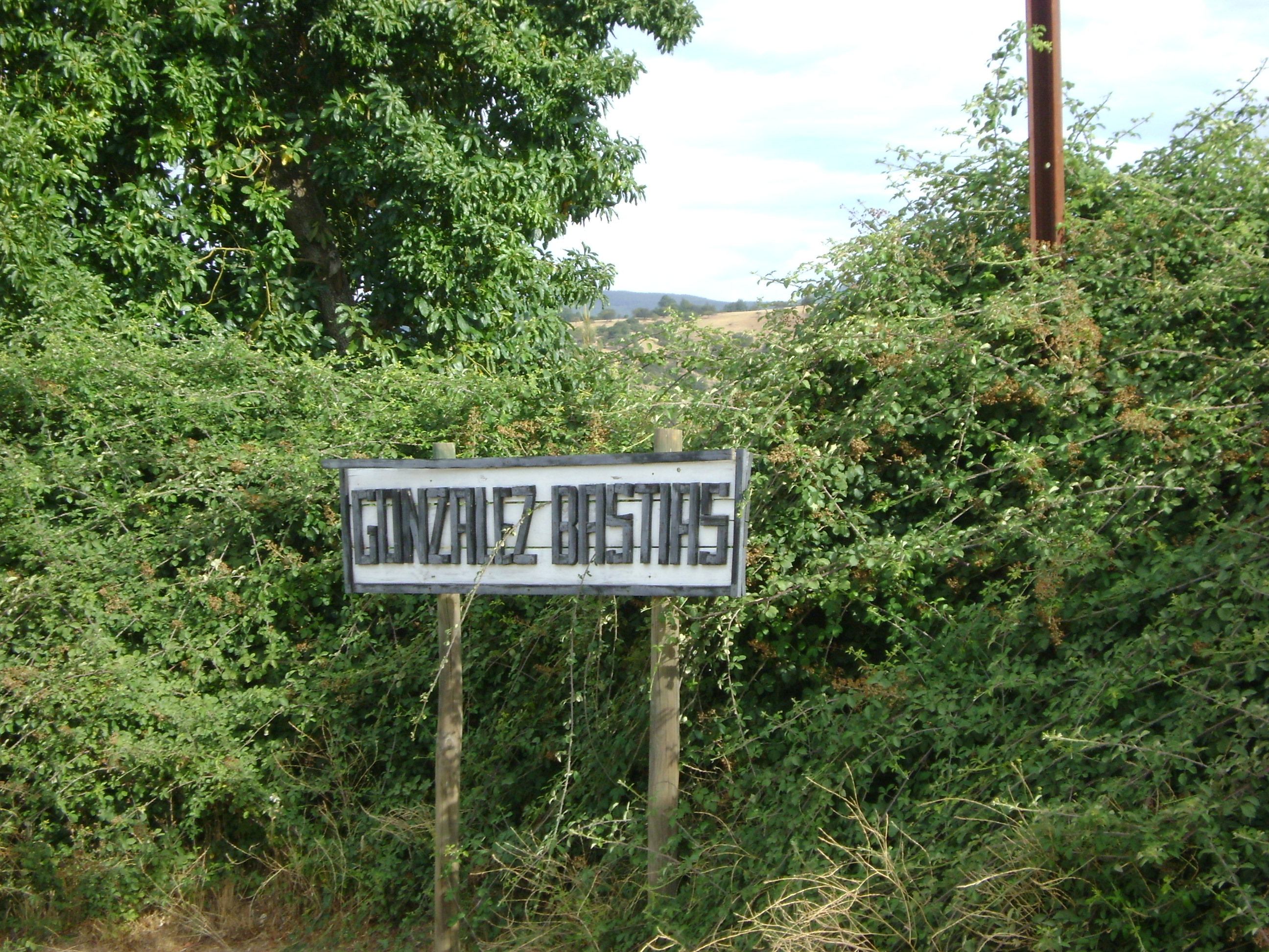 Ramal Ferroviario Talca-Constitución This is a photo of a national monument in Chile: 2085